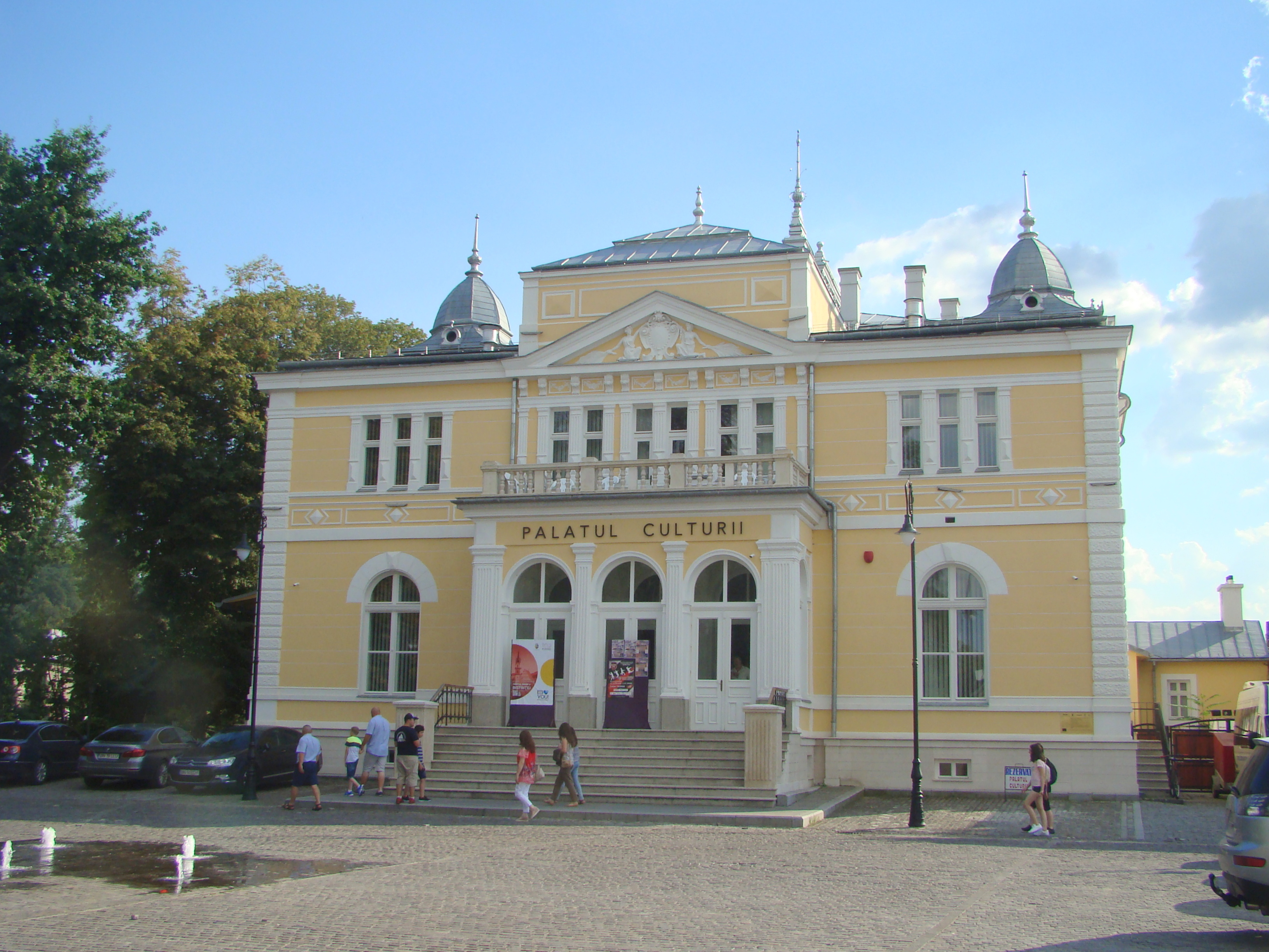 Culture Palace in Bistrița, Albert Berger street 10